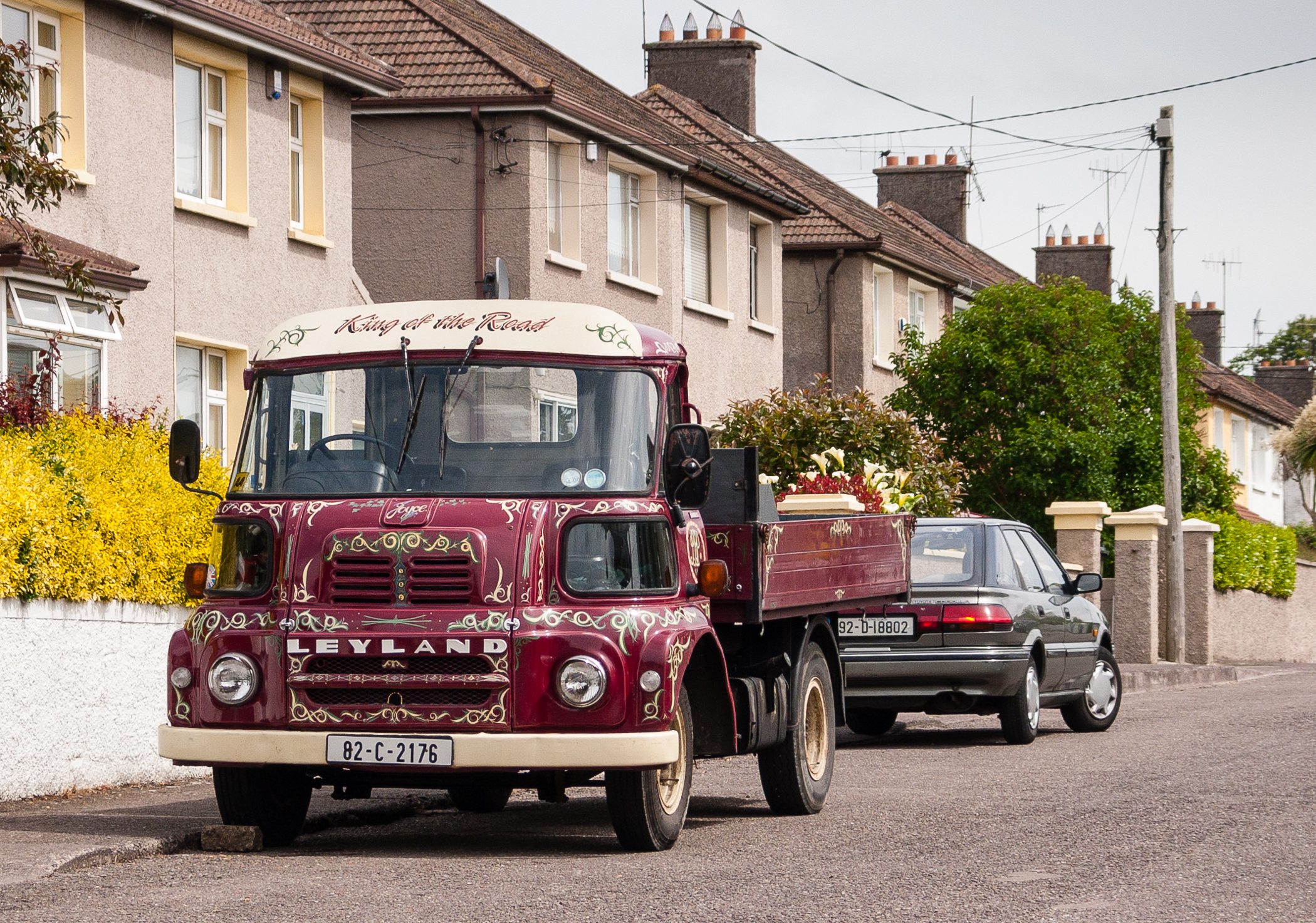 Leyland FG in Bishopstown, Co. Cork